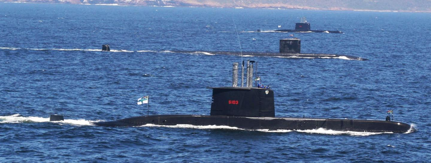 South African submarines, SAS Charlotte Maxexe and SAS Queen Modjadji 1, accompanies Los Angeles-class submarine USS San Juan (SSN 751), into False Bay in Simon's Town, South Africa, Nov. 4, 2009.